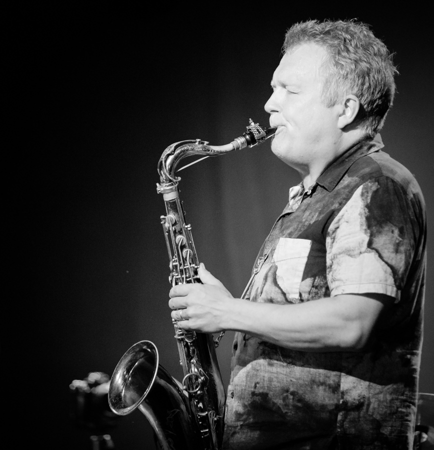 Fredrik Ljungkvist with Stenson/Christensen/Ljungkvist in Energimølla. The concert was part of Kongsberg Jazzfestival and took place on 07. July 2018 in Kongsberg. Lineup:Bobo Stenson (piano)Jon Christensen (drums)Fredrik Ljungkvist (saxophone and clarinet)